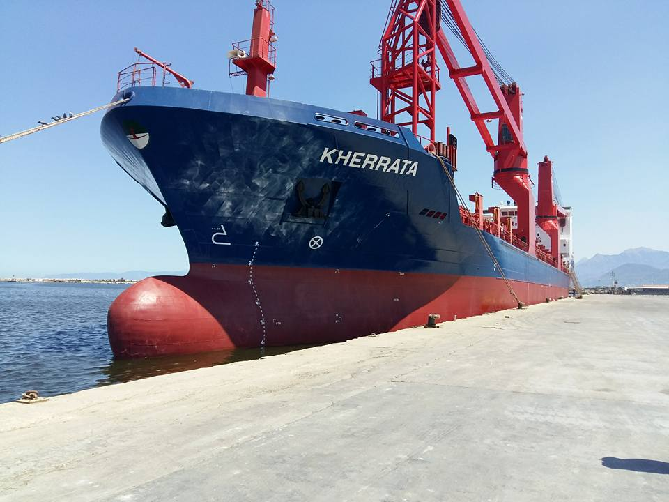 port djen djen jijel